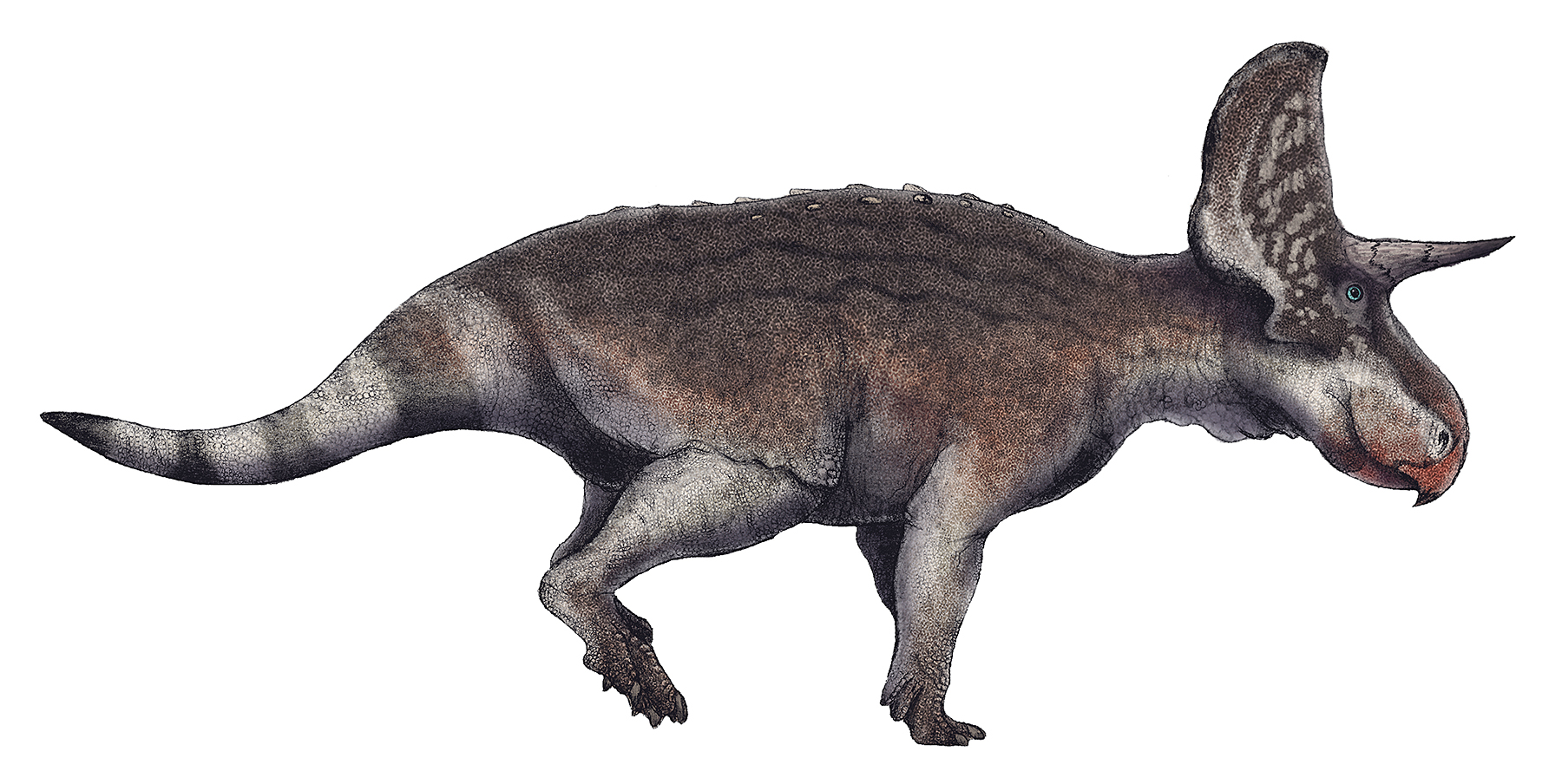 Life restoration of Turanoceratops tardabilis